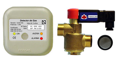 DOMESTIC GAS DETECTOR